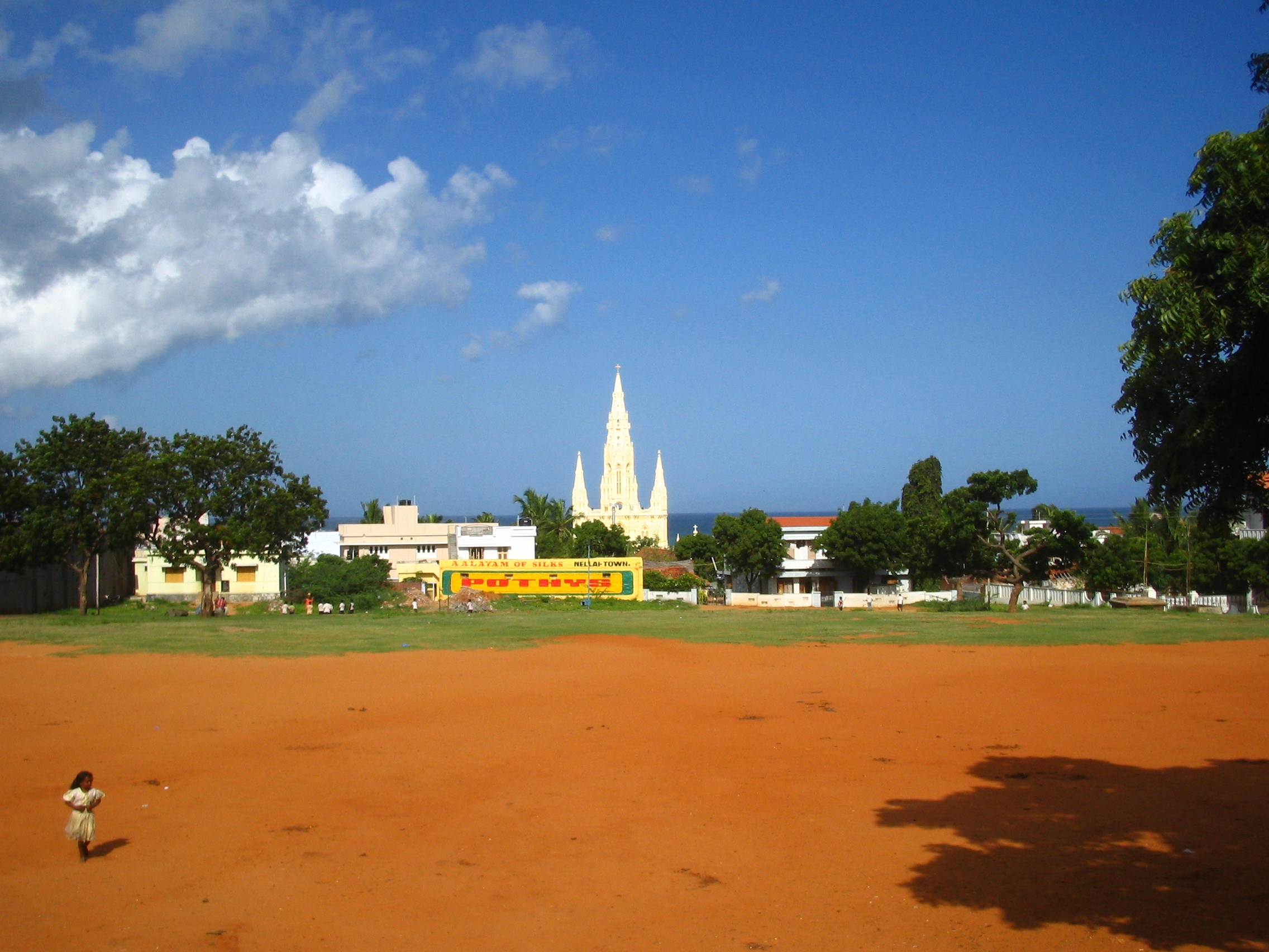 Church of "Lady of Ransom".